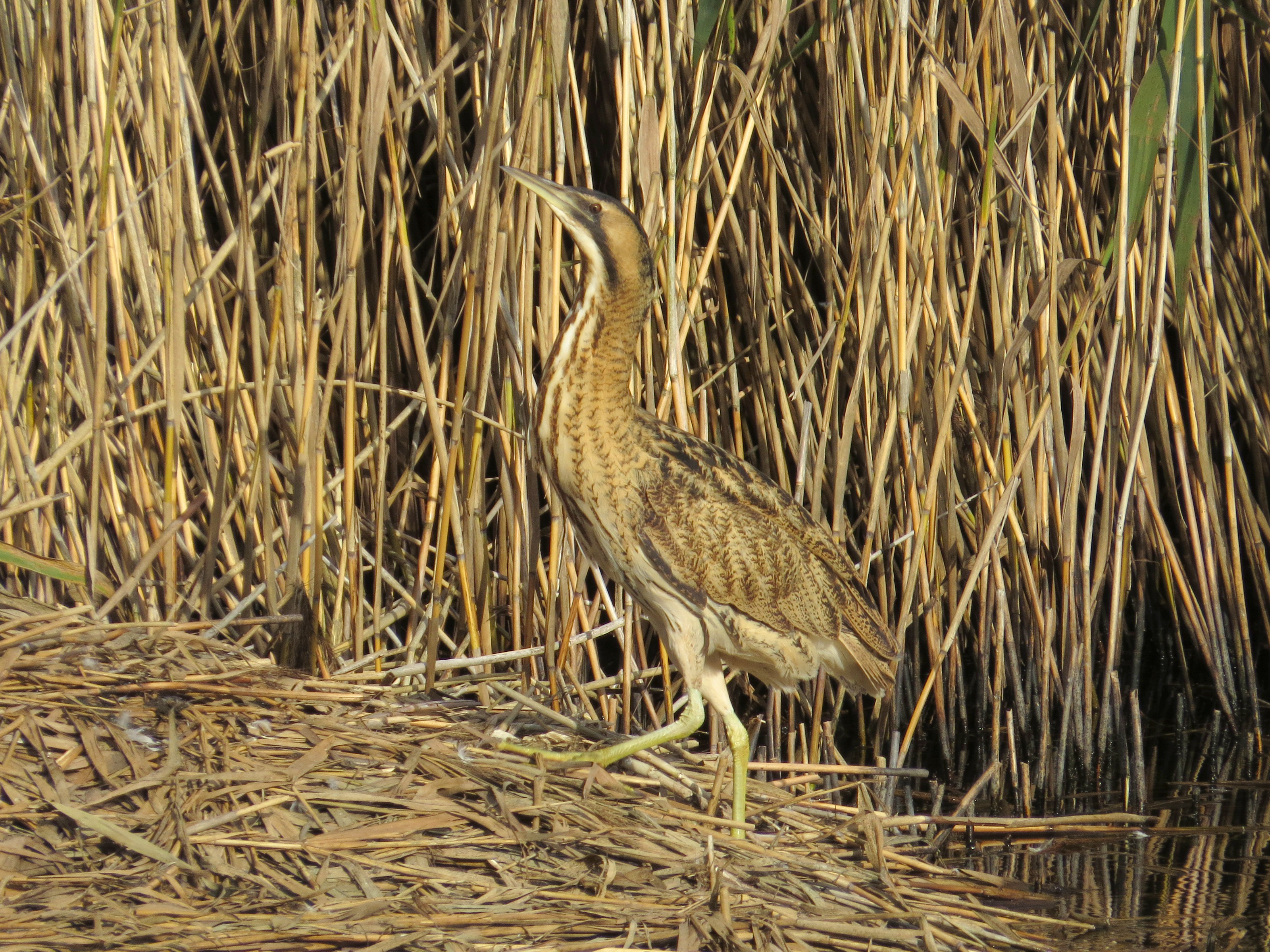 Bittern Botaurus stellaris, Gosforth Park Lake, Northumberland